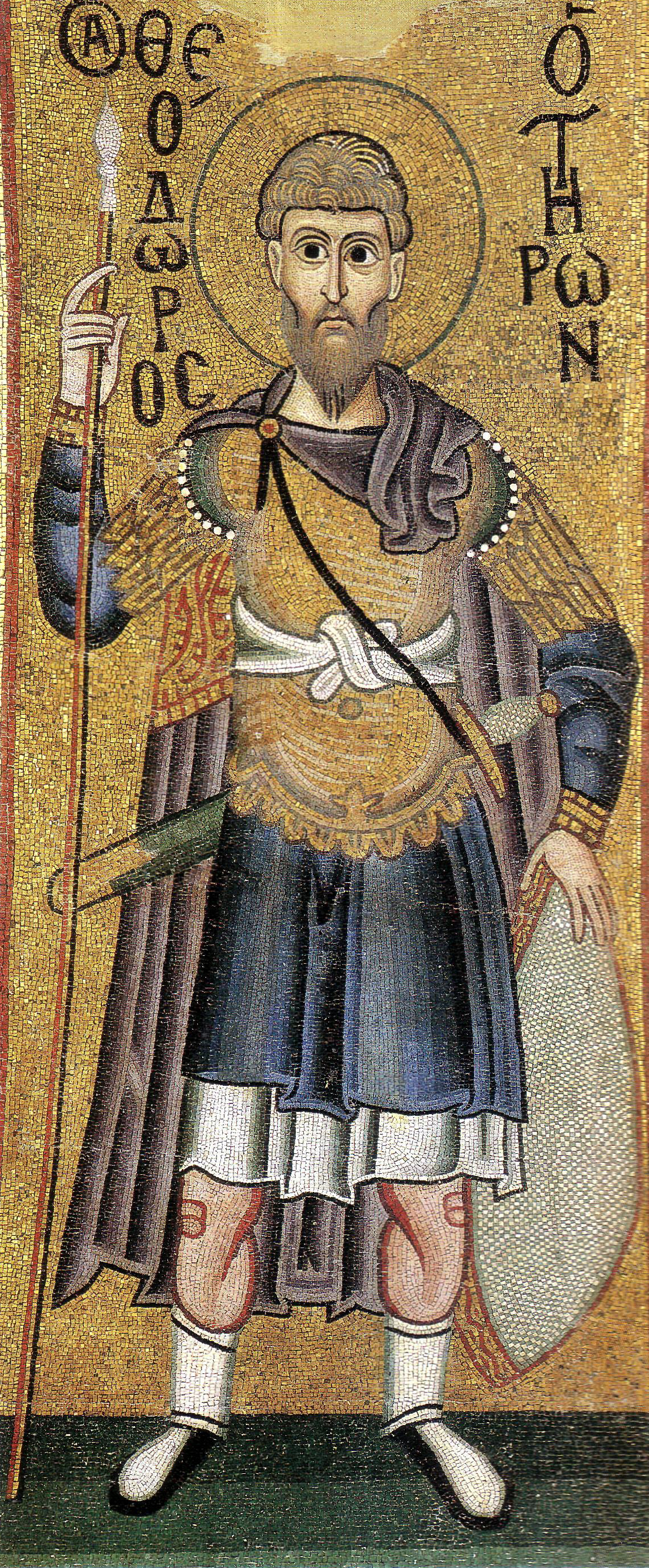 Hosios Loukas Monastery, Boeotia, Greece